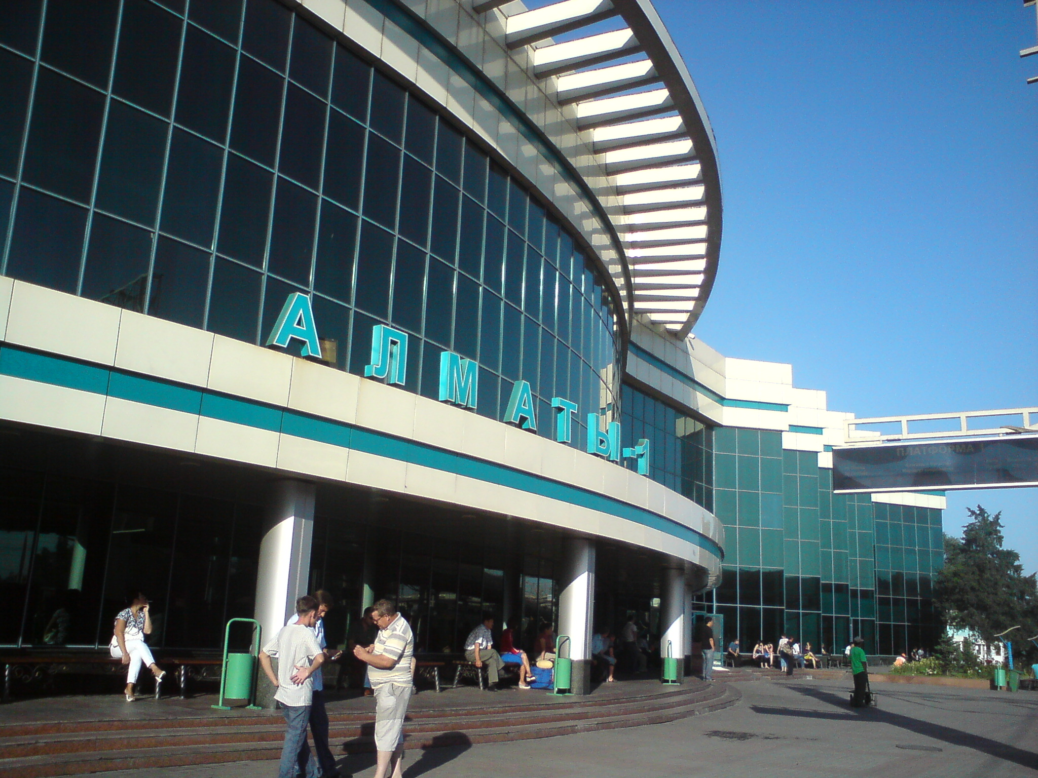 Almaty, Kazakhstan. The inner side of the building of "Almaty-1" railways station.